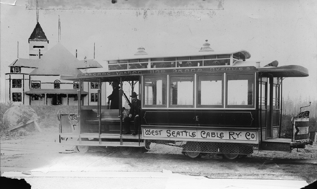 Pavilion at terminus of Cable Road, baseball grounds to the left. Item 66239, Erlyn Jensen Rainier Beach Collection (Record Series 9940-01), Seattle Municipal Archives.